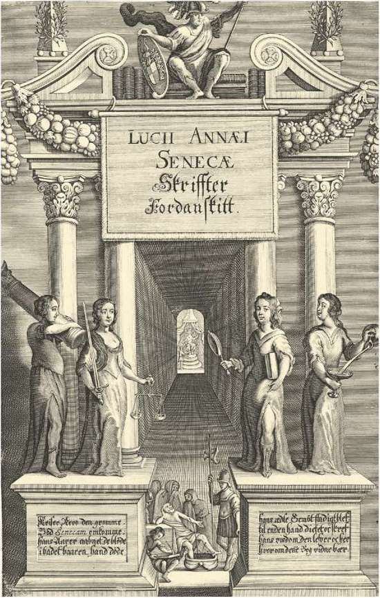 titelkobberet from Birgitte Thott's translation of Seneca's works to Danish.